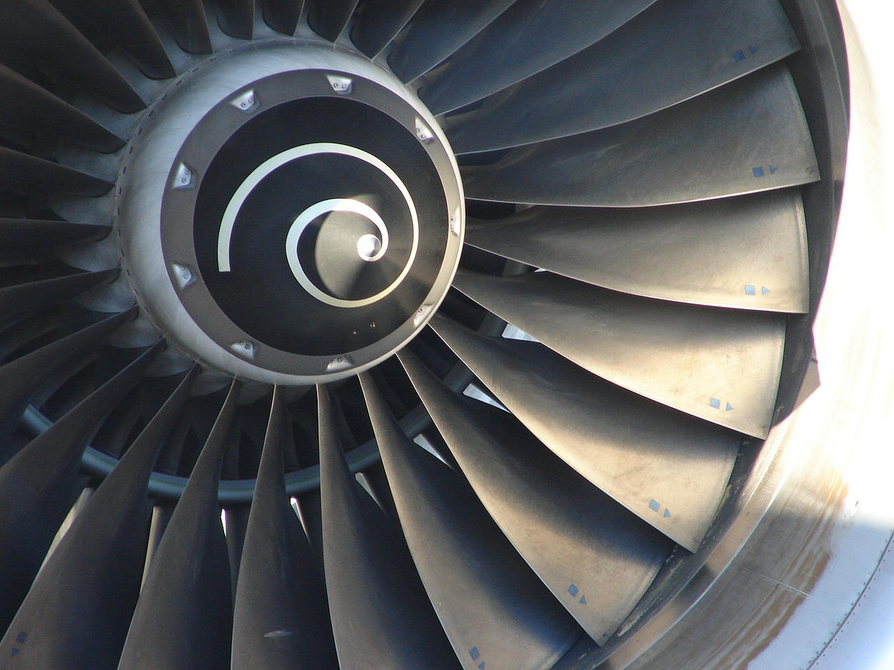 One of 2 Trent's that will take the Boeing 777-200ER N770AA 7AA to Shanghai in a few hours as "AA289." Only a little over 14 hours from ORD to PVG...